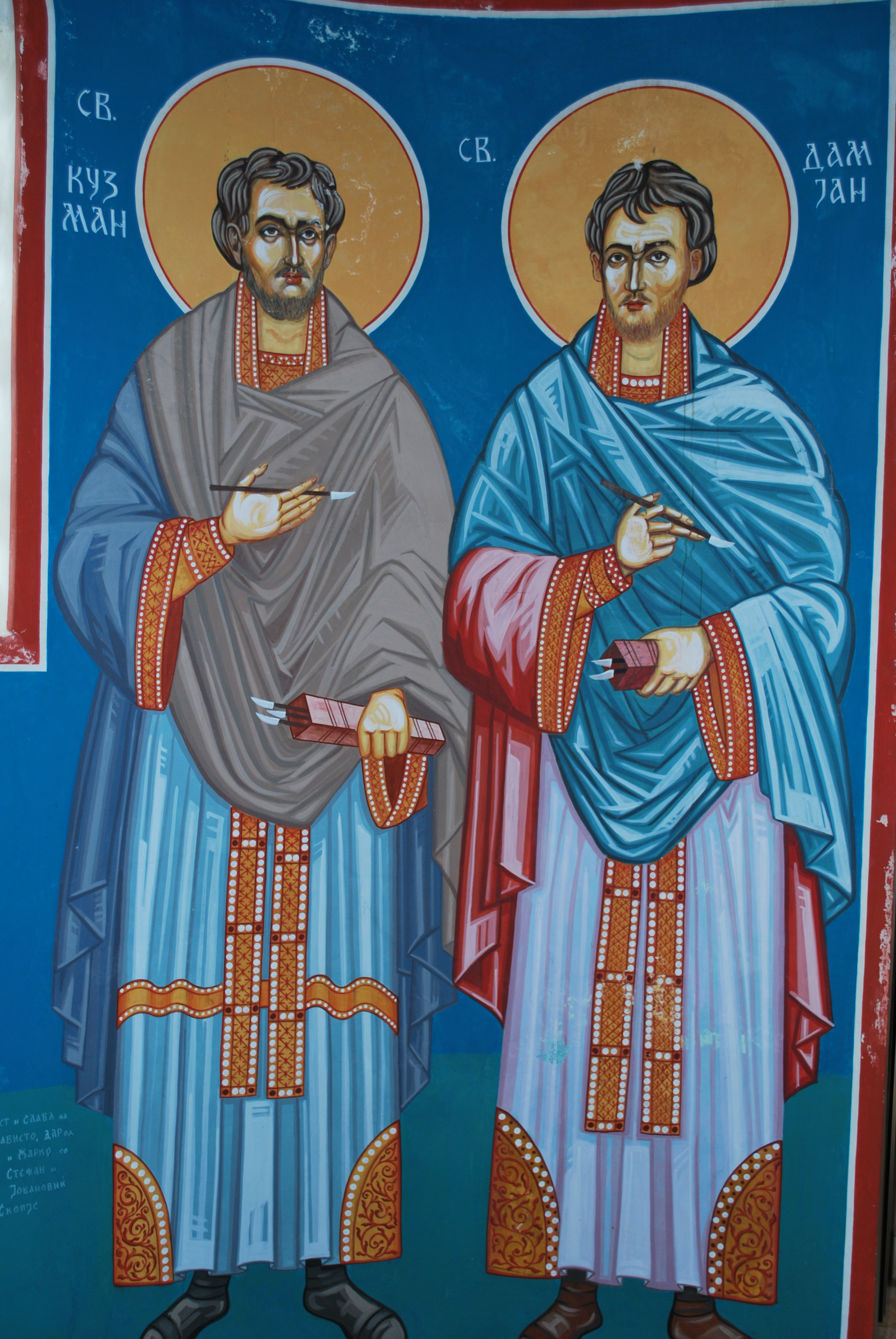 Holy Trinity Church in Skačkovce. The main church in Skačkovce Monastery, Macedonia.